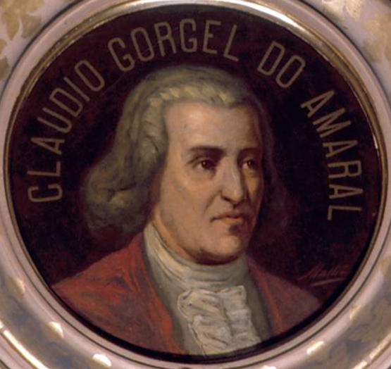 Cláudio Gorgel do Amaral, on one of the ceilings of Lisbon City Hall.